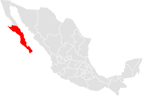 A map of the mexican state of baja california sur made by me